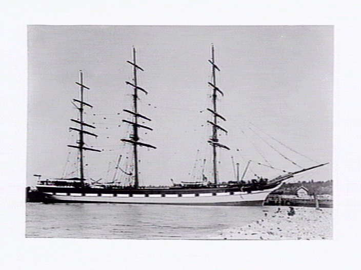 Black and white photograph of Loch Katrine at wharf, close to shore. Photograph taken prior to being dismasted in 1910.